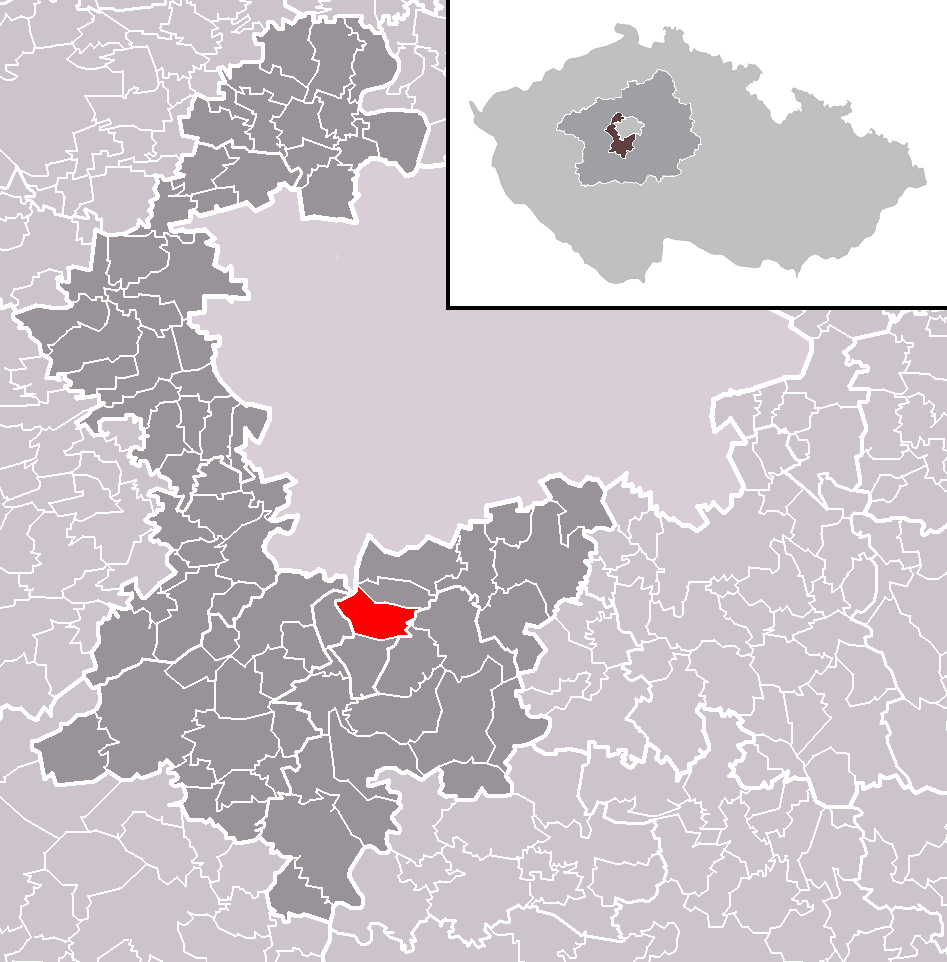 Location of Zvole municipality within Prague-West District and administrative area of Černošice as a Municipality with Extended Competence.